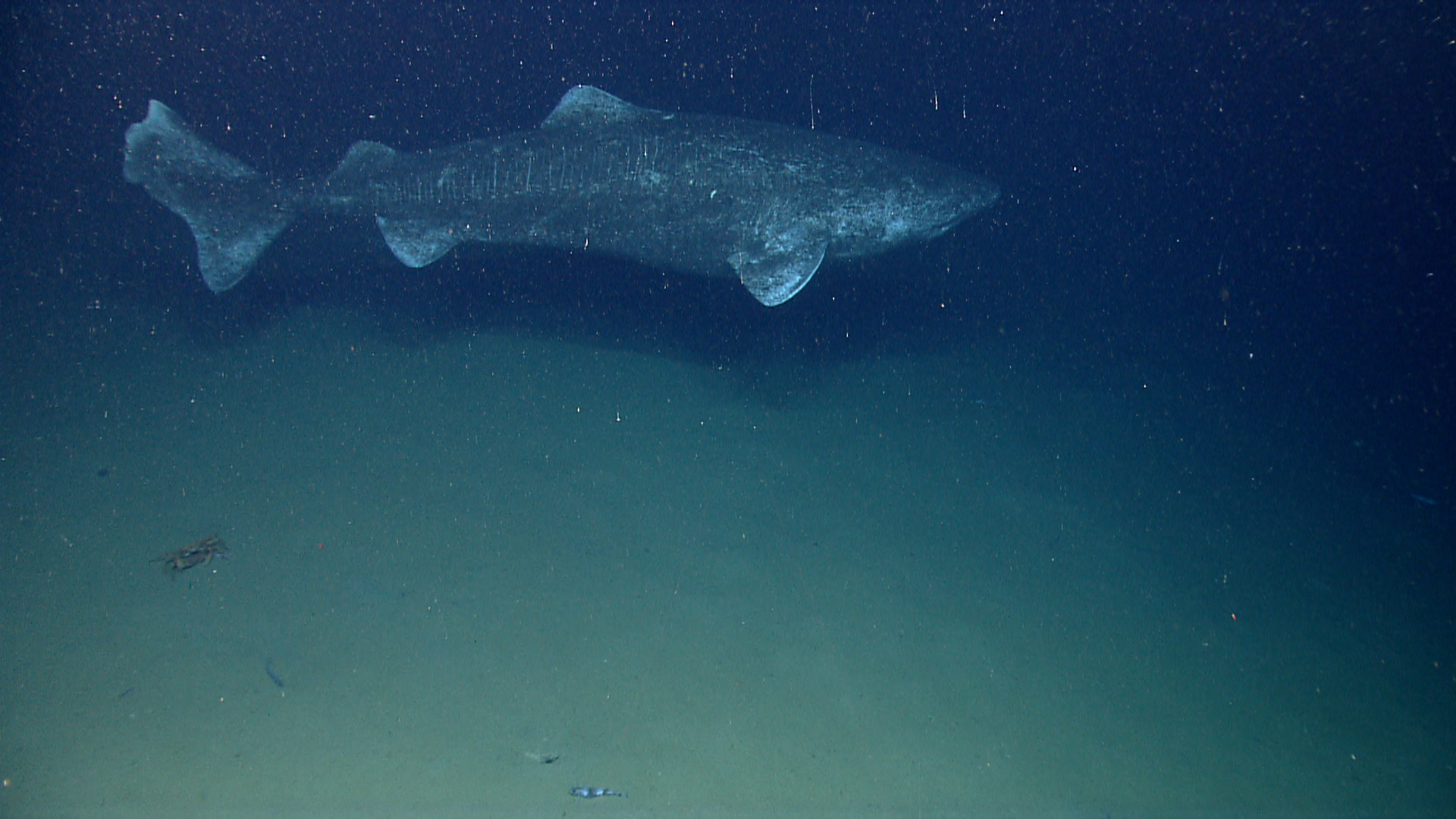 Deep sea fish. A Greenland shark. This was the largest fish encountered during the Northeast U.S. Canyons Expedition. Image ID: expl9984, Voyage To Inner Space - Exploring the Seas With NOAA Collect Location: Between Alvin and Nantucket Canyons, 896-778m Photo Date: 20130816T200507Z Credit: NOAA OKEANOS Explorer Program , 2013 Northeast U. S. Canyons Expedition